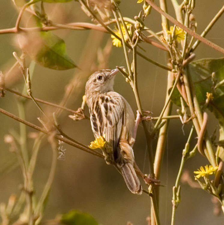 A montage of four photos of Zitting Cisticola or Streaked Fantail Warbler (Cisticola juncidis).